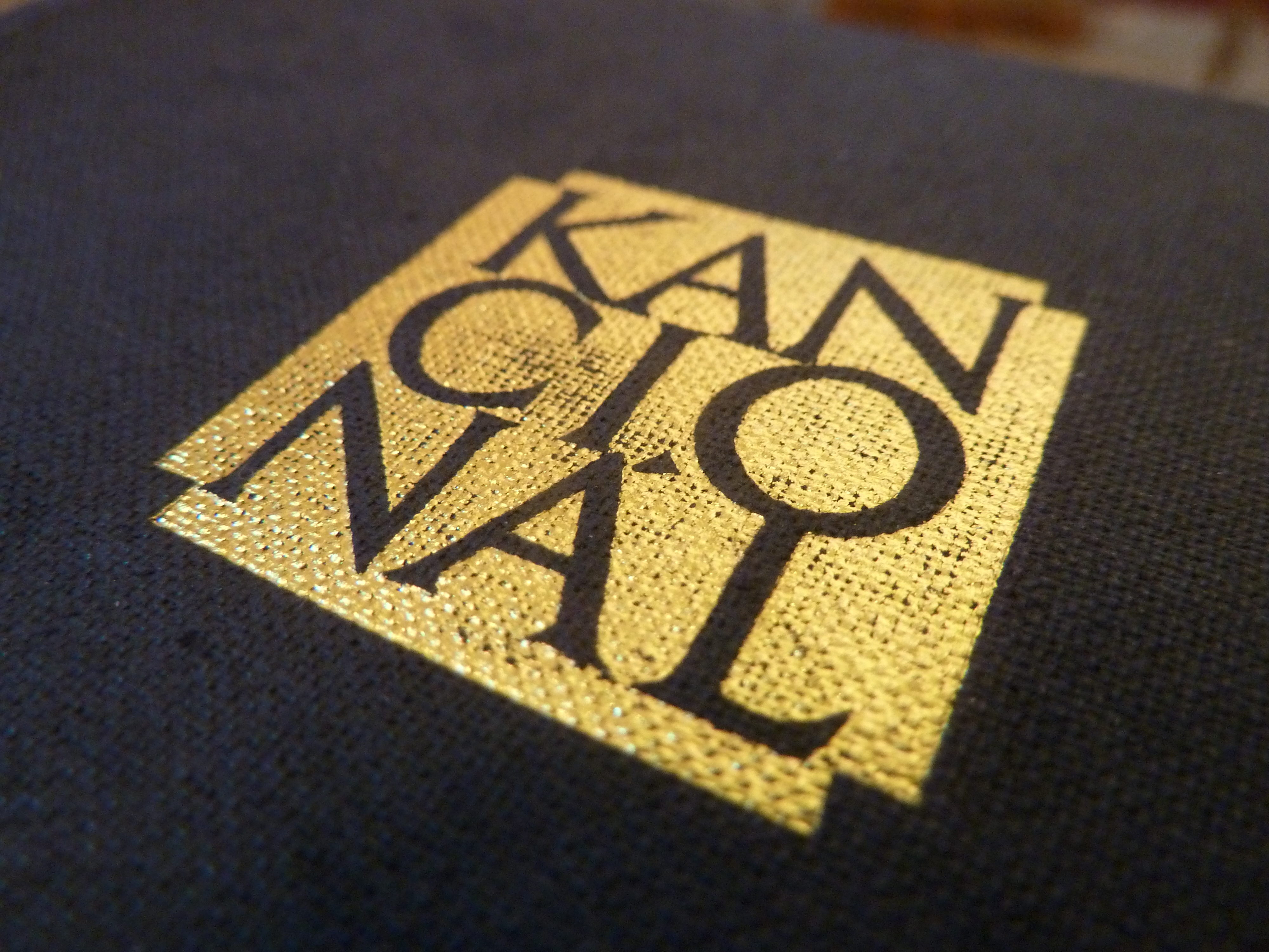 Logo of Common hymnal of Czech and Moravian dioceses